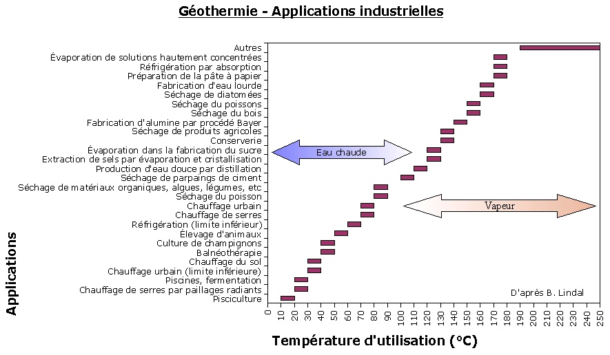 géothermie-applications industrielles, tableau inspiré des travaux de B. Lindal geothermal industrial applications, from B. Lindal works